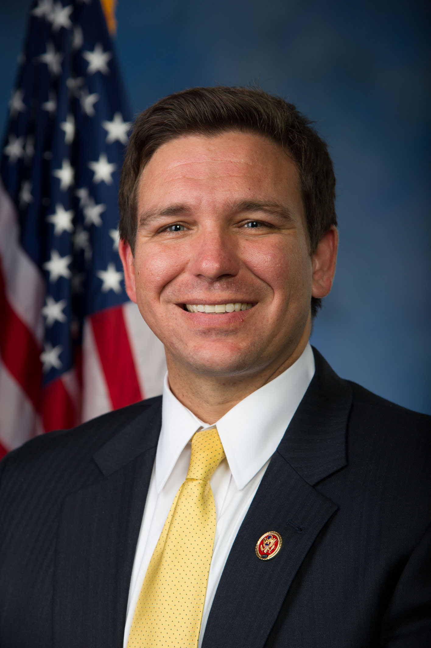 Depicted person: Ron DeSantis – 46th and current governor of Florida